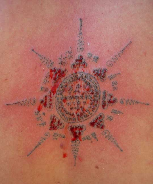 Yant Paed Tidt